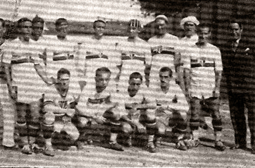 squad of São Paulo Futebol Clube in 1932.